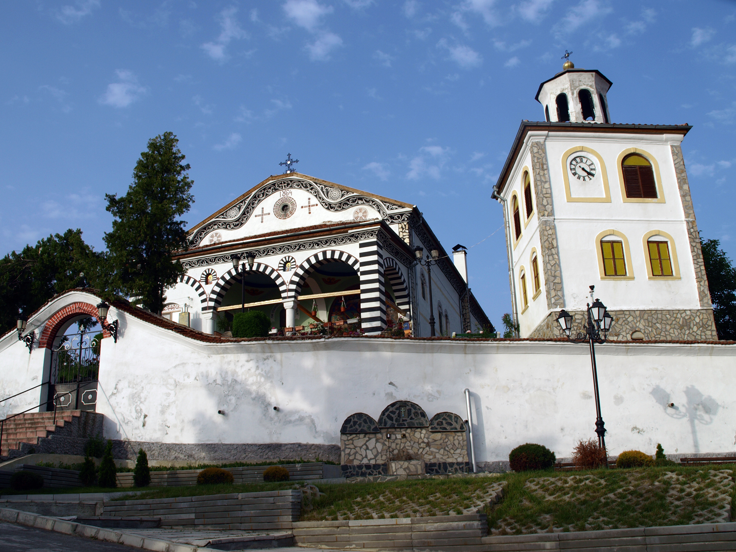 The Assumption of Mary Church in Saparevo, Bulgaria Църквата "Успение Богородично", с. Сапарево